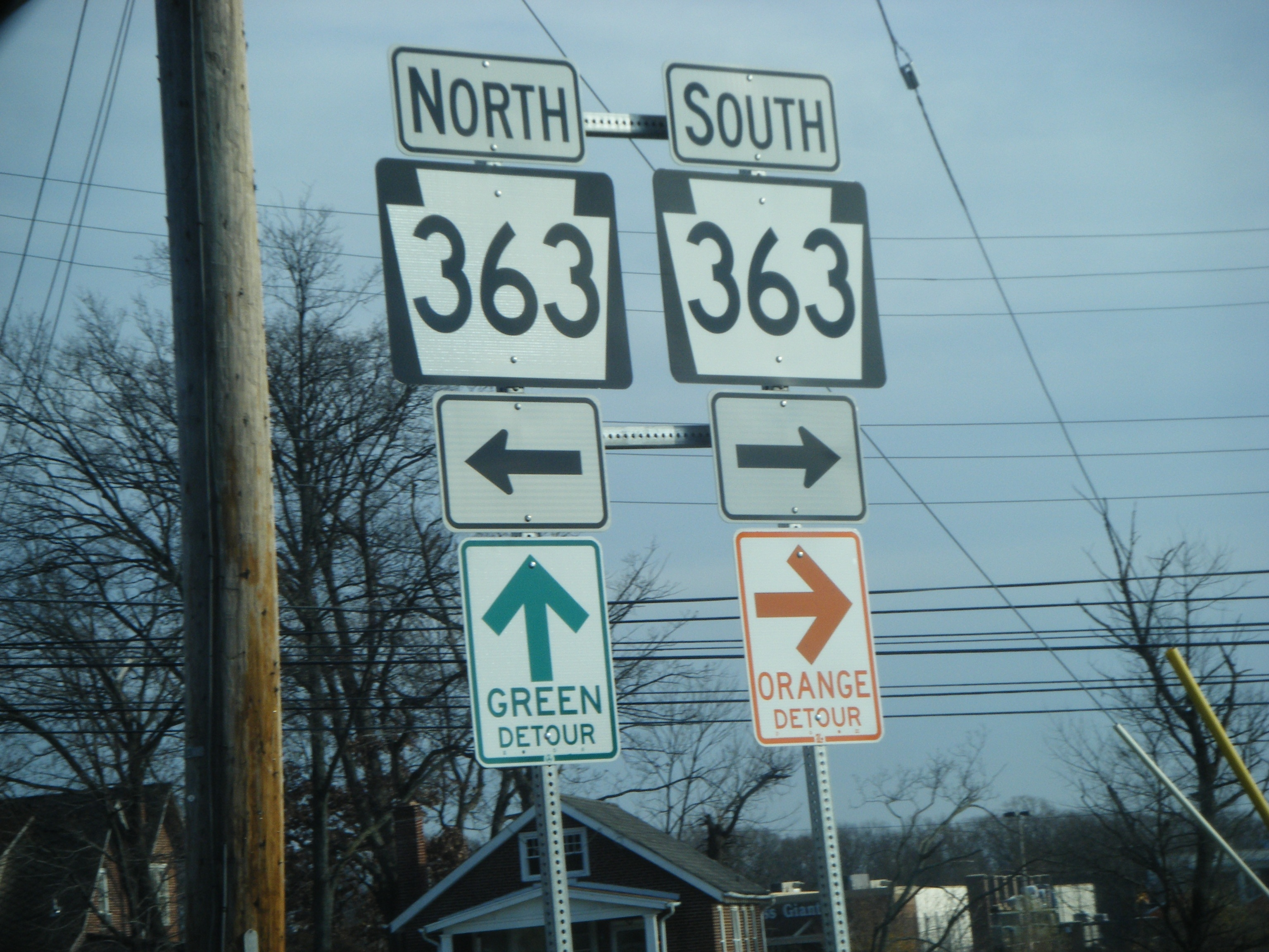 Signage for Pennsylvania Route 363 on eastbound Egypt Road in Lower Providence Township, Pennsylvania